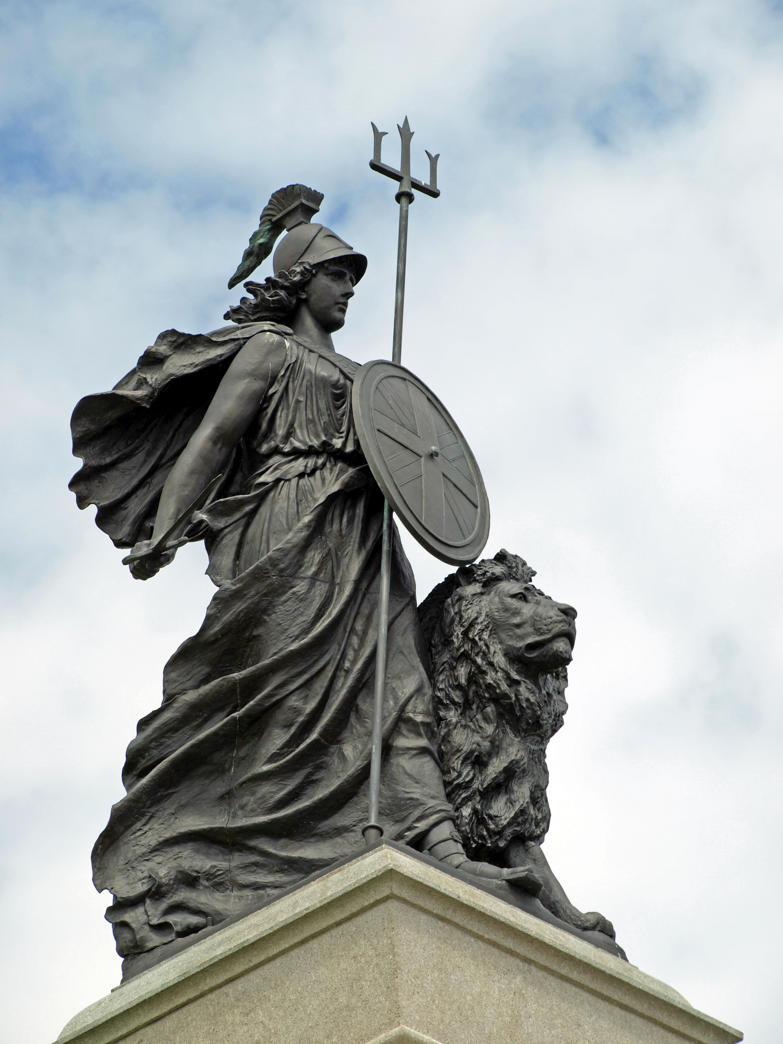 Photograph of Brittania statue, taken 13th June 2008 on Plymouth Hoe, Plymouth, United Kingdom.